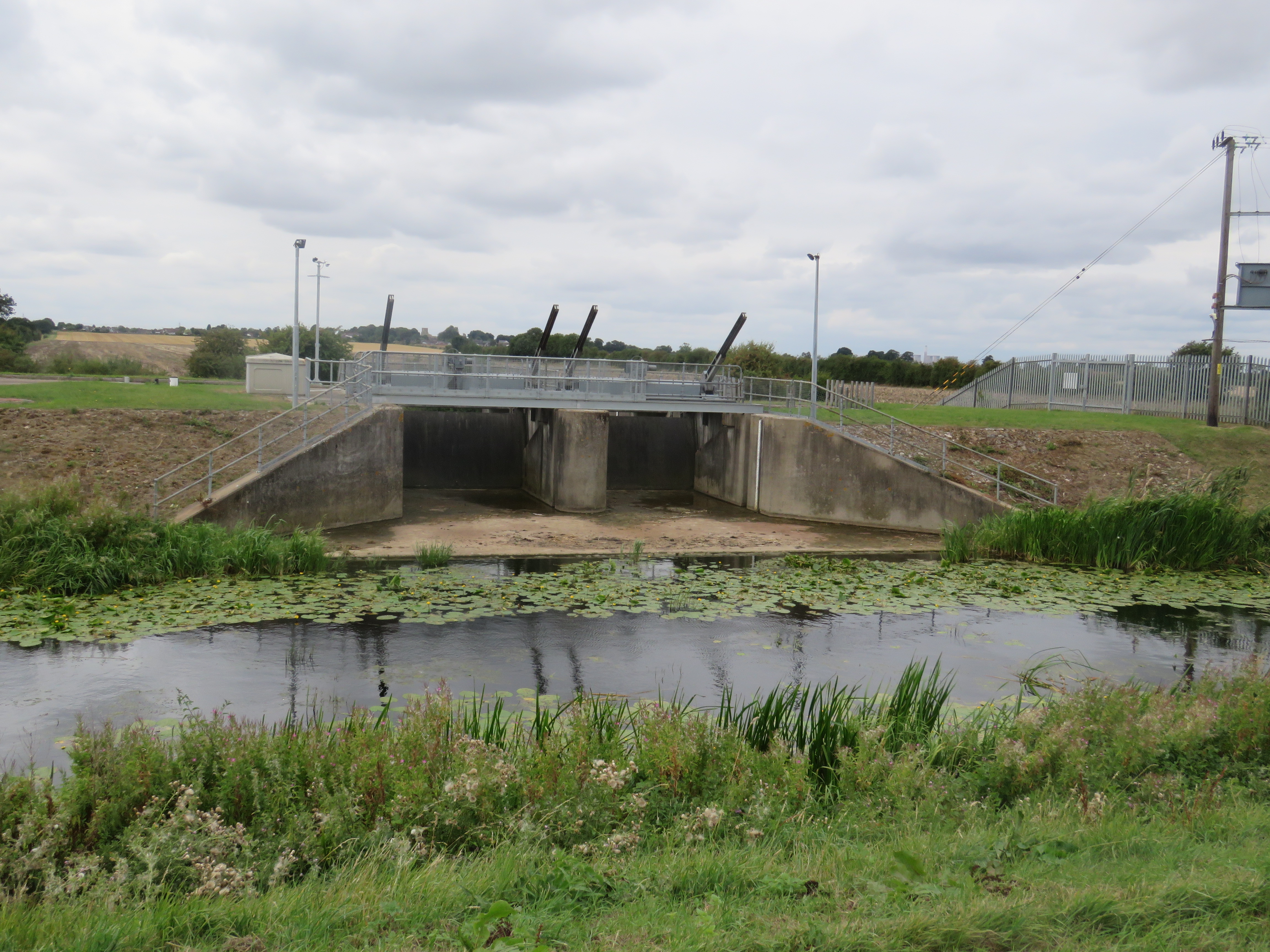 This sluice allows washlands to the west of the River Till, Lincolnshire to be flooded, to protect the city of Lincoln. The gates are in the closed position.